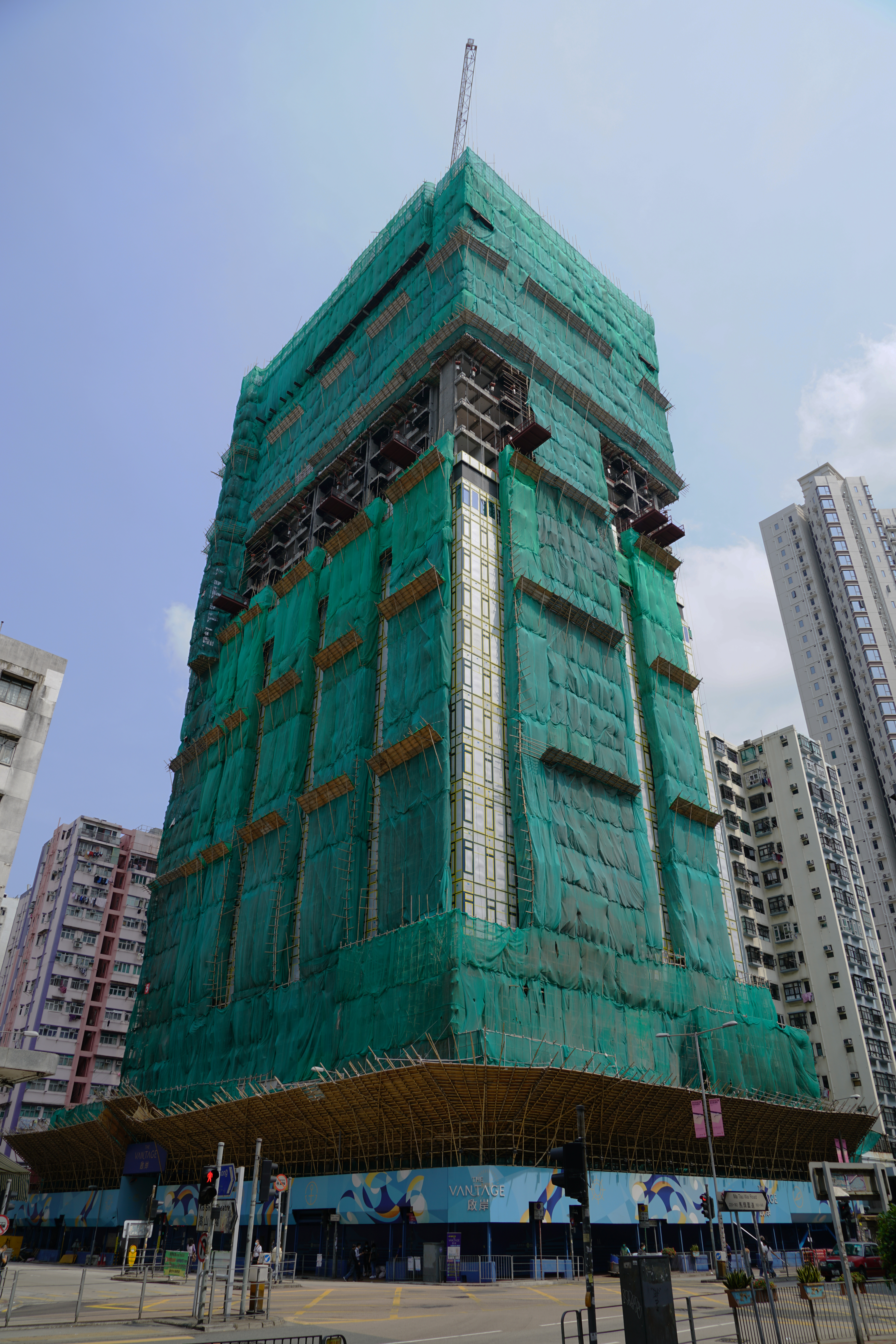 The Vantage, Hong Kong.